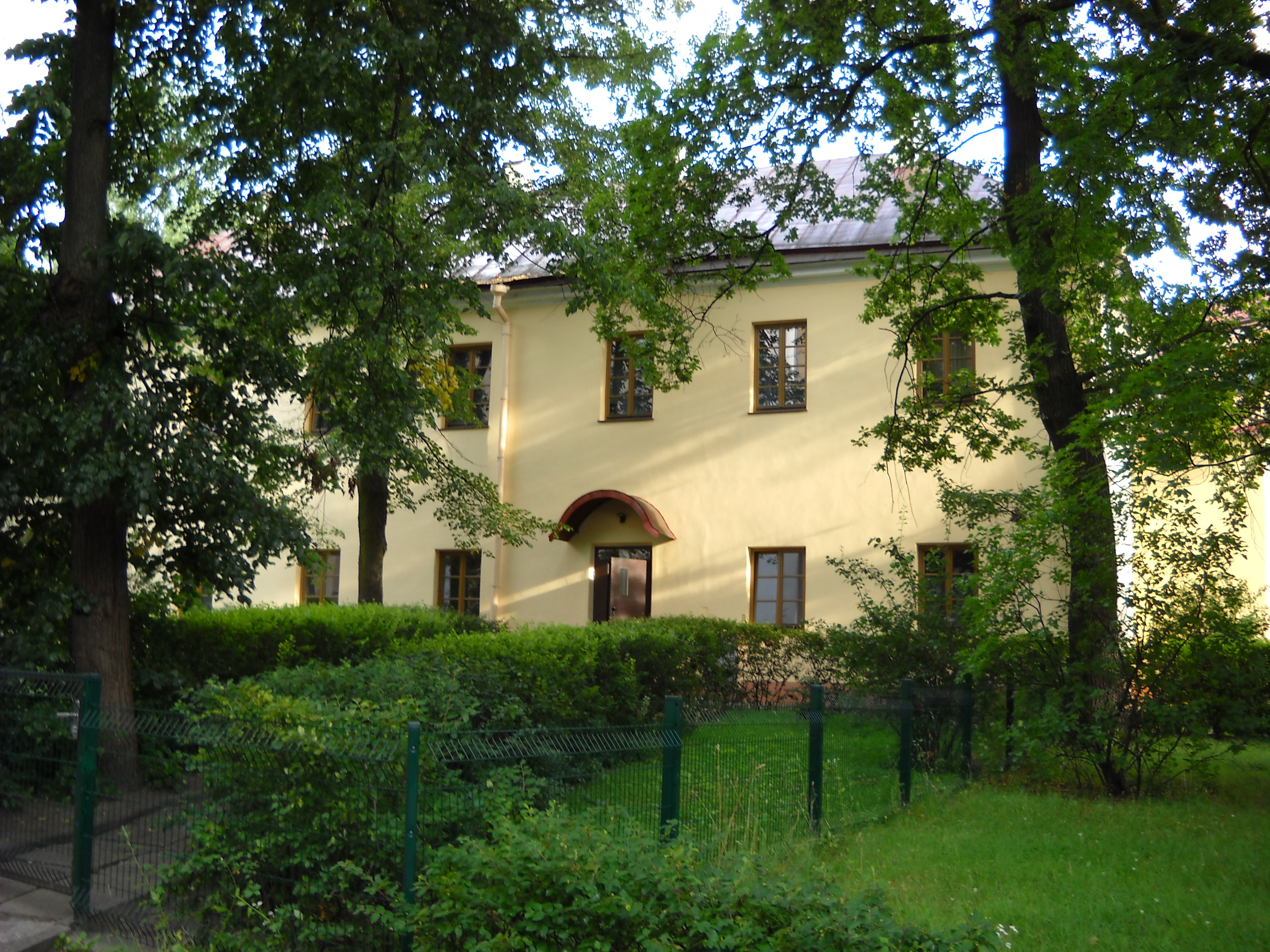 Vilnius, Holy Spirit monastery